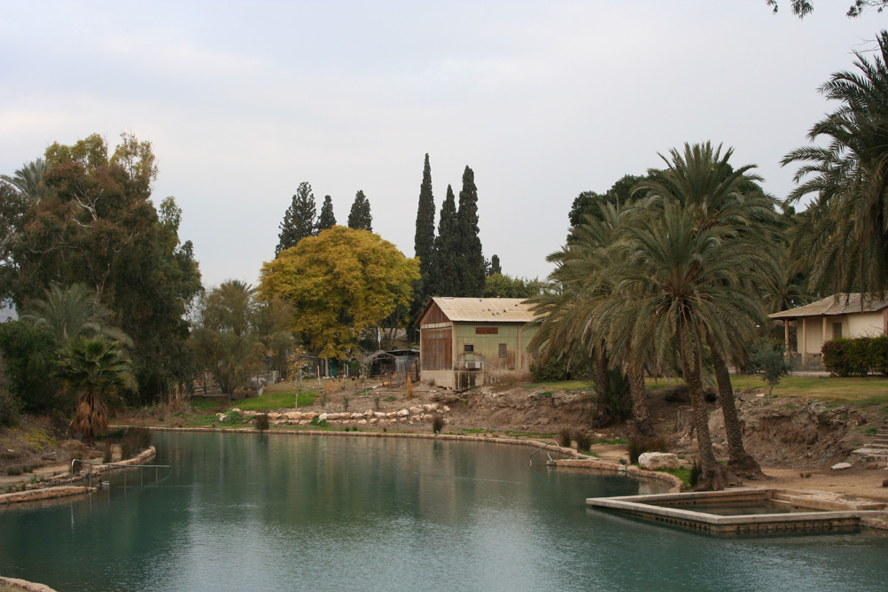 Nir David Photo by beivushtang